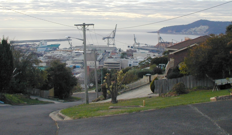 View of downtown Burnie and ports from a hillside suburb.